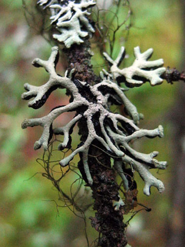 Lichen, Kananaskis Country, Alberta, Canada